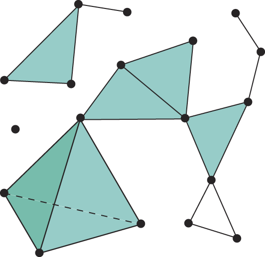 Example of a simplicial complex.